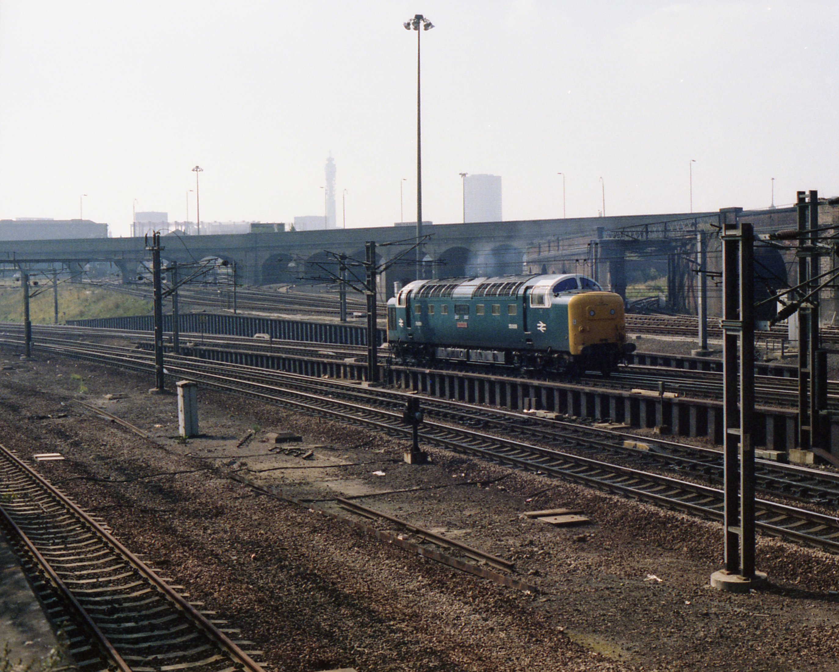 BR Class 55 Deltic locomotive, 55009 'Alycidon' - a threatened species at the time this photograph was taken - glides past still-extant remains of the era it replaced, with the arches in the background once the entrance to King's Cross 34A 'Top Shed' steam depot, and the large goods and coal yards. The line leading off, under the overbridge to the right, is still very much in use being the connecting spur to the North London Line, the overbridge of which the photographer is sitting beneath. The base of one time 'Belle Isle' Signal Box can be seen in the centre left between the remaining running lines. 1970s. Camera: Olympus OM1 35mm SLR. Film: Fuji